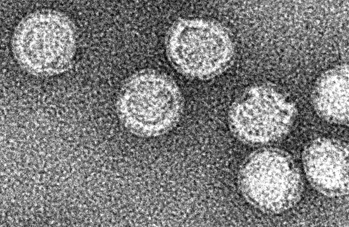 Electron micrograph of tick-borne encephalitis virus at pH 8.0. TBE virus was preincubated at pH 8.0, fixed with formalin, and negatively stained by phosphotungstic acid adjusted to pH 8.0. Cropped from Fig 4A of Stiasny K, Kössl C, Lepault J, Rey FA, Heinz FX (2007) Characterization of a Structural Intermediate of Flavivirus Membrane Fusion. PLoS Pathog 3(2): e20.